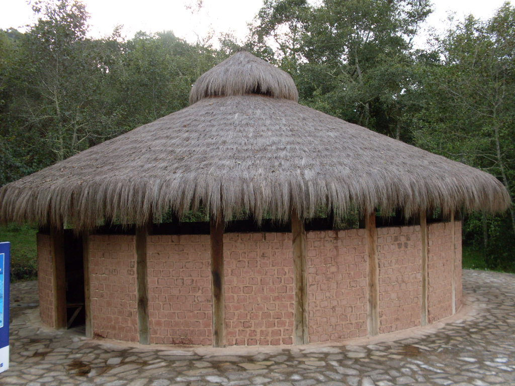 Casa Indigena, Laguna de Guatavita